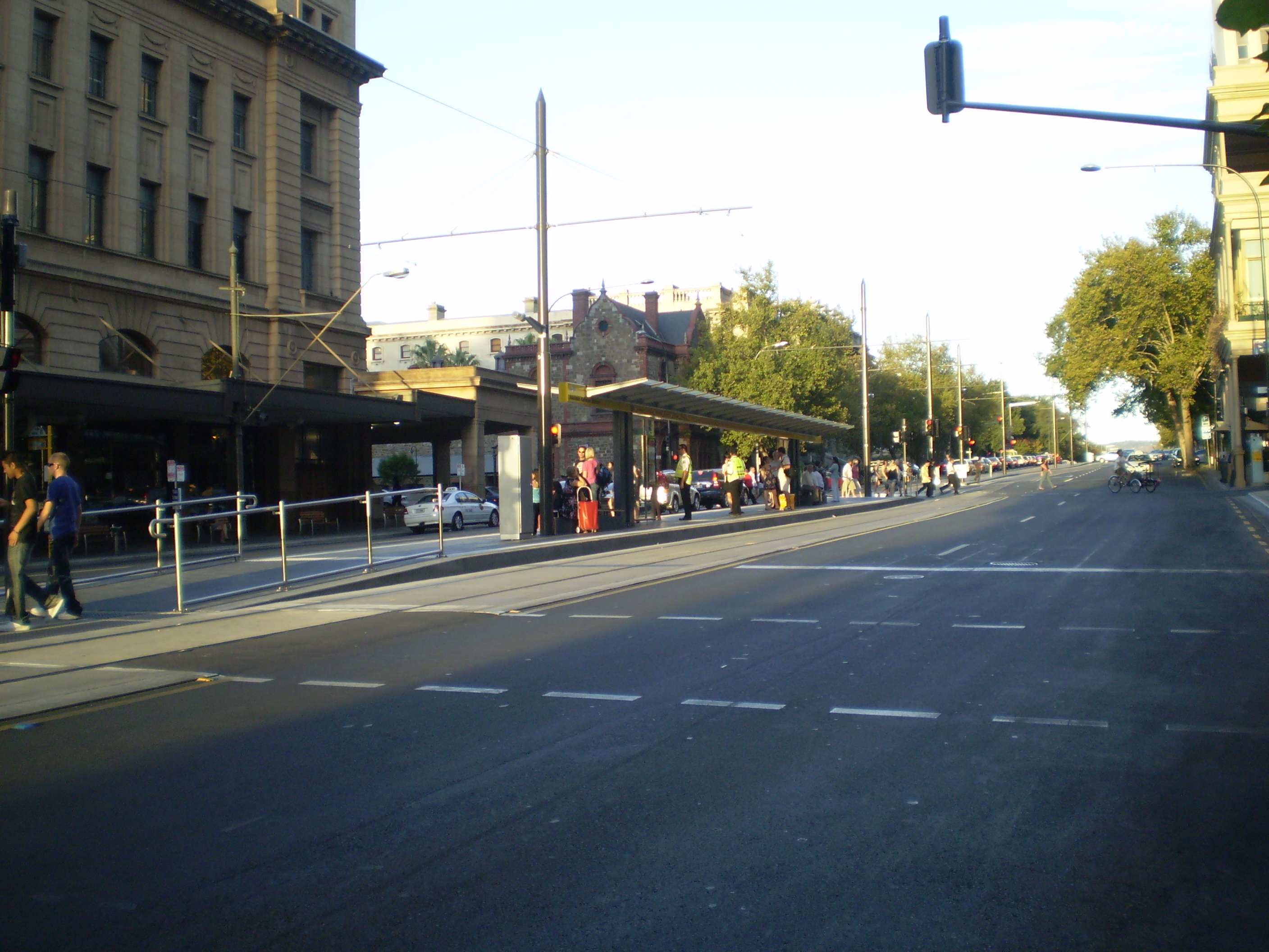 Taken by Norman Hackenberg at Adelaide Railway Station on 7/3/2008.